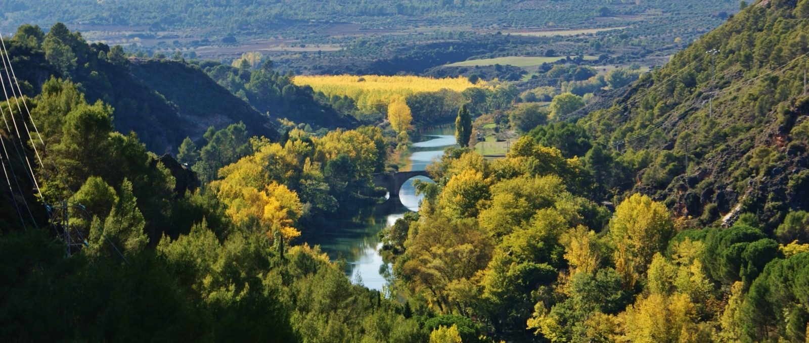 Medieval bridge over the Tagus River, its entry into the town of Auñón. Photo taken from the old N-320, along the dike in Sacedón.